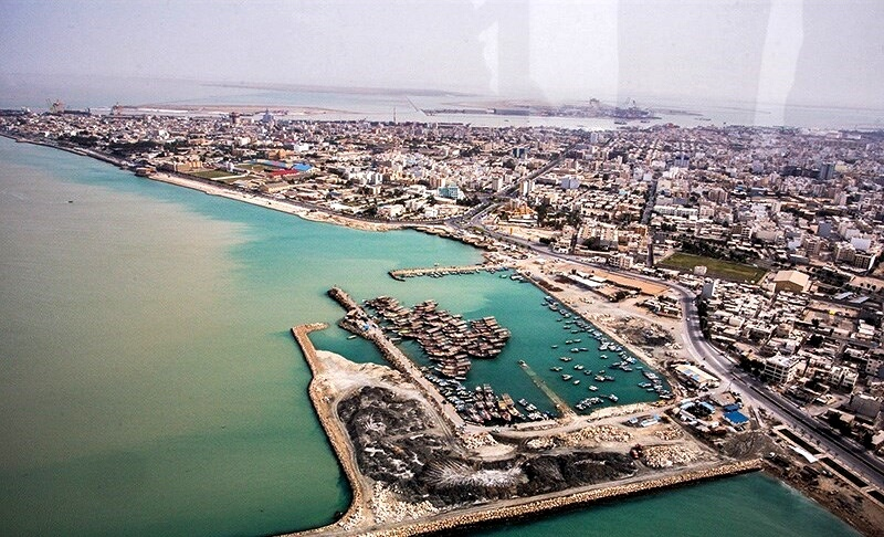 Bushehr city, Iran